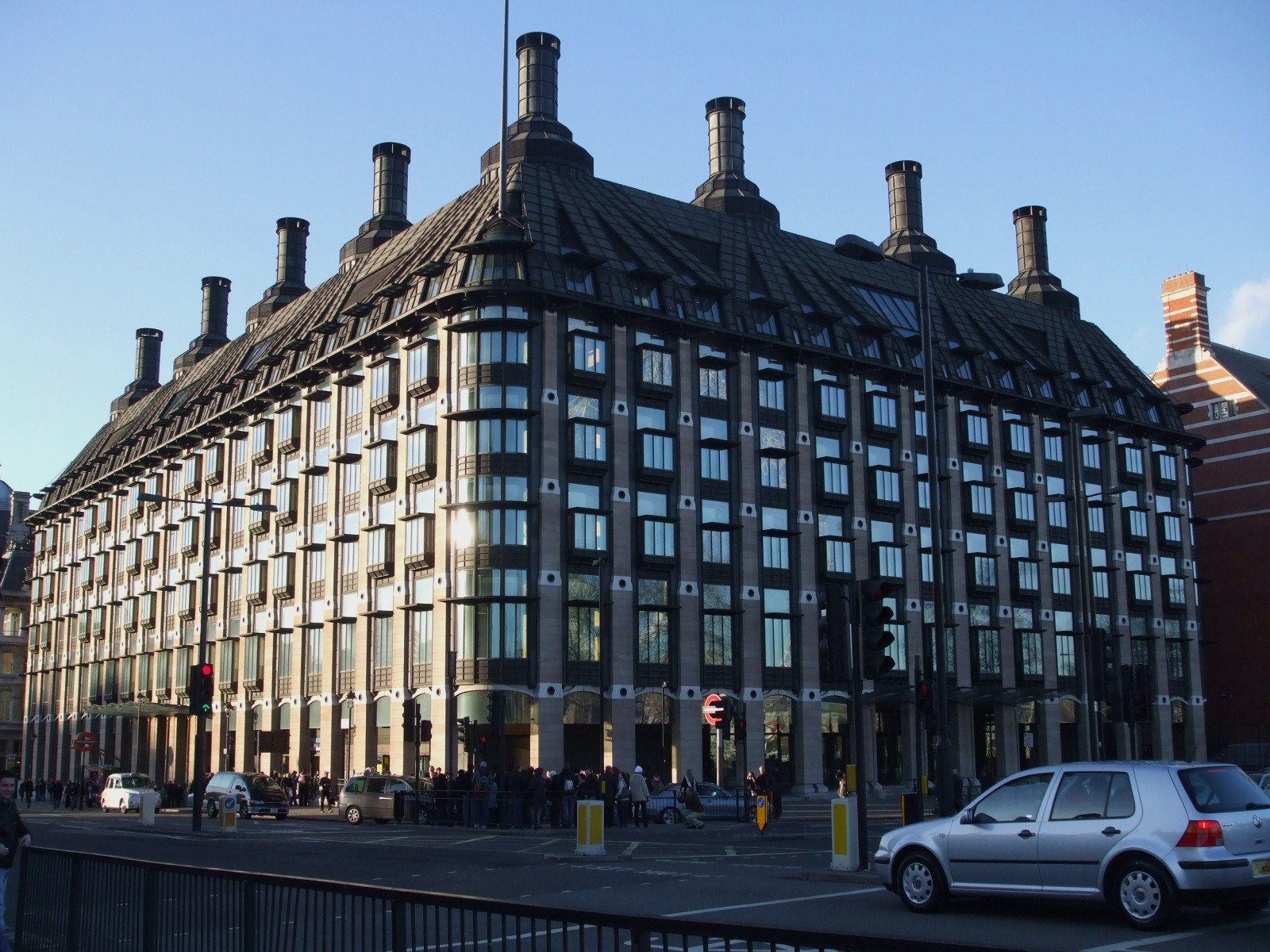 Westminster tube station main building, in the base of the parliamentary building Portcullis House